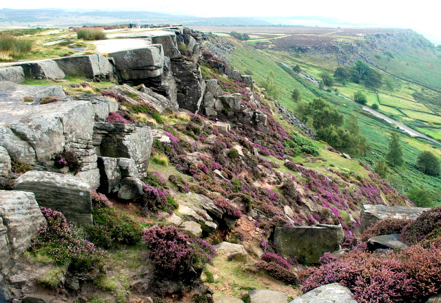 Along Curbar Edge The millstone grit and heather are very typical of this area. Baslow Edge at the other side of Curbar Gap can be seen in the distance.